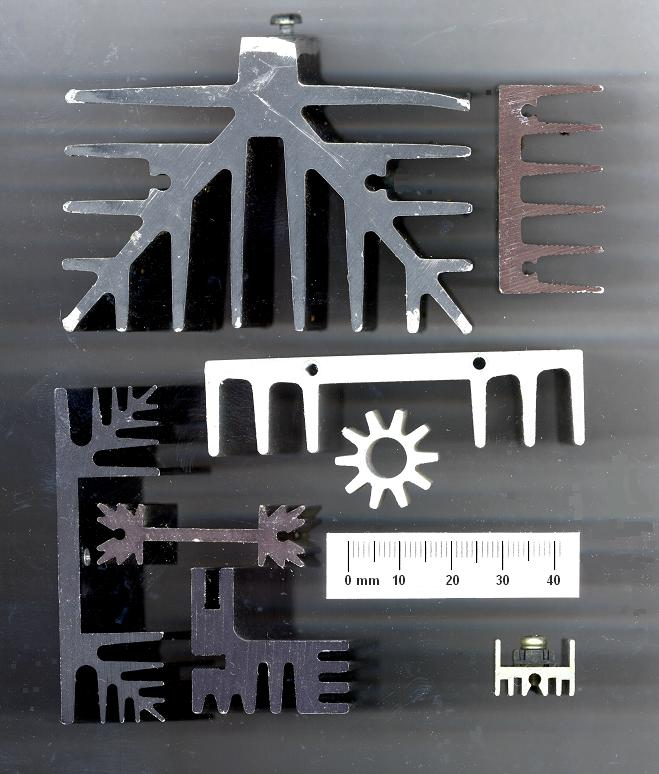 extruded heat sink profiles